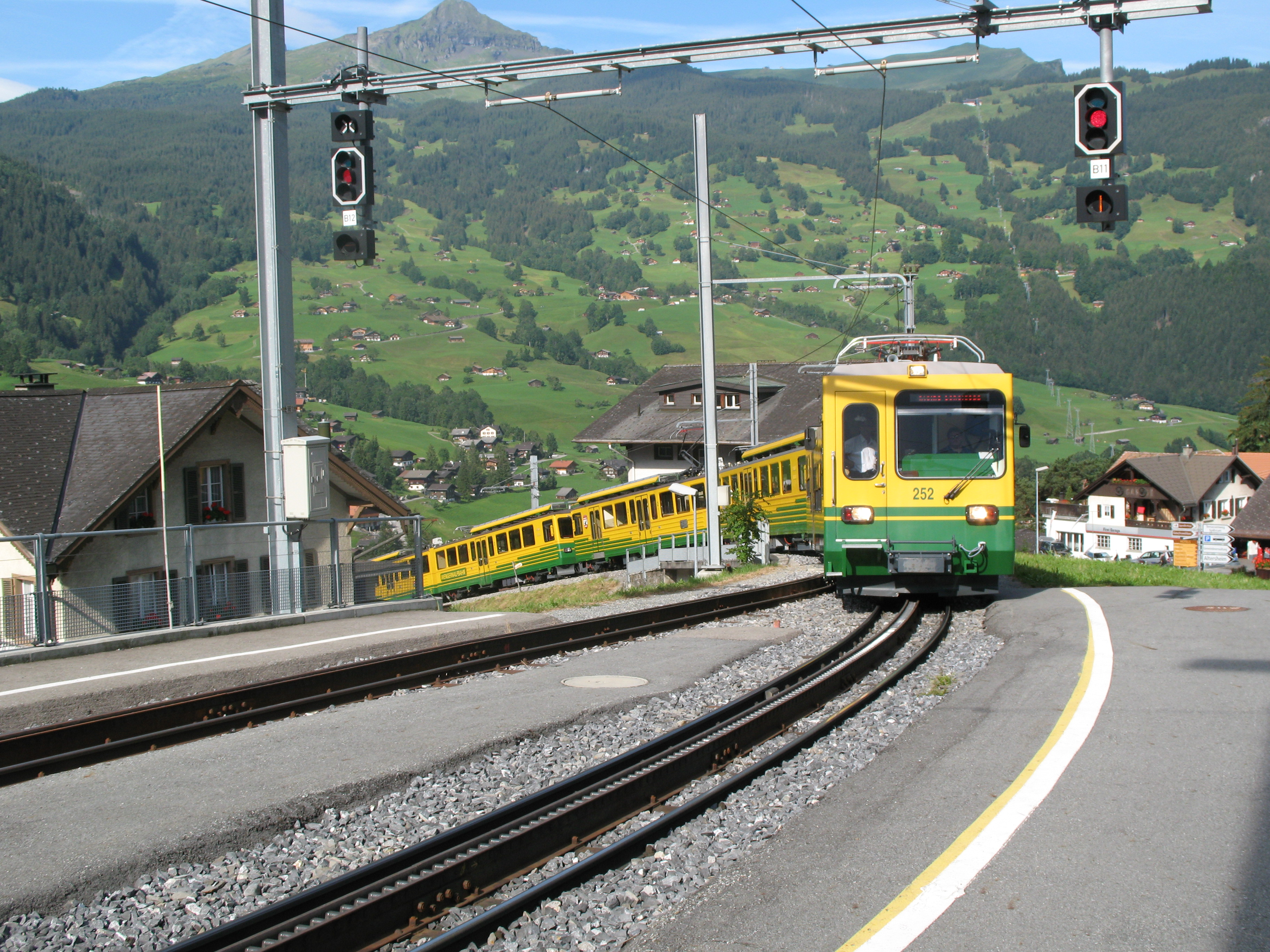 Wengernalpbahn cab car , Grindelwald, Switzerland